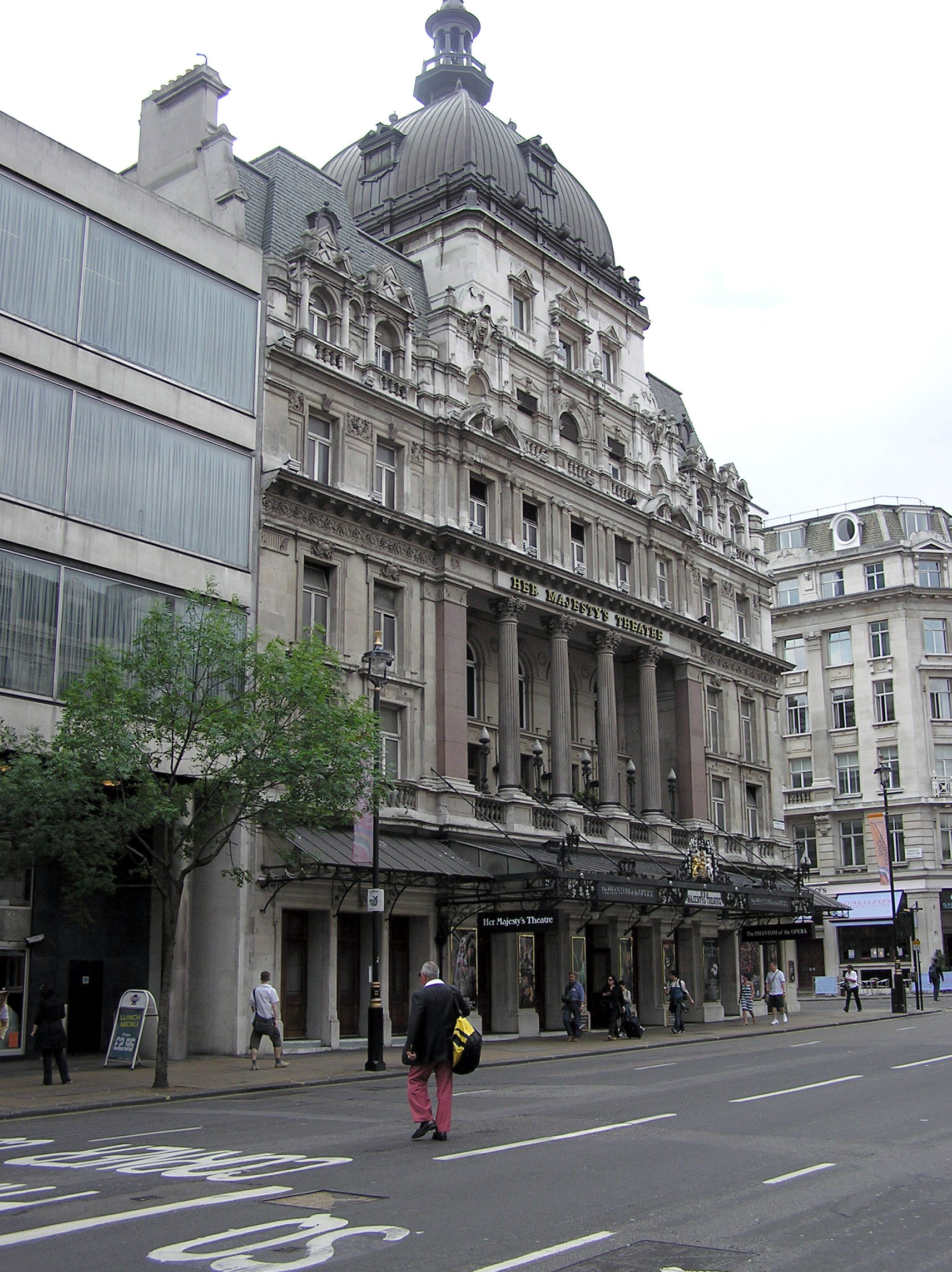 Her Majesty's Theatre in The Haymarket, London, England, home to Andrew Lloyd Webber’s musical Phantom of the Opera. Phantom began at Her Majesty’s in 1986 and has remained there ever since. The original cast was led by Michael Crawford and Sarah Brightman. Photographed by Adrian Pingstone in June 2005 and released to the public domain.